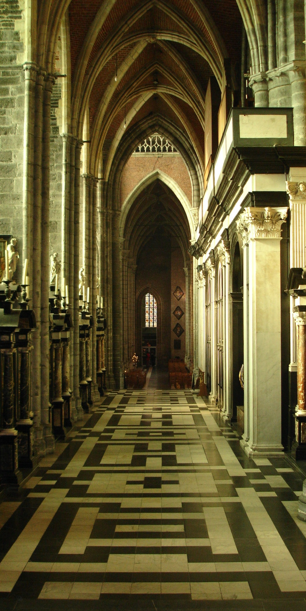 own picture